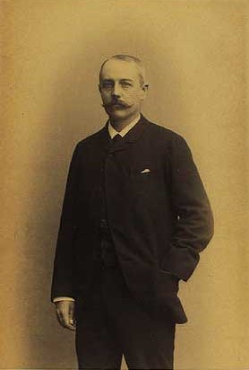 Carl Adolph Rothe Treschow (1839-1924), Danish estate owner